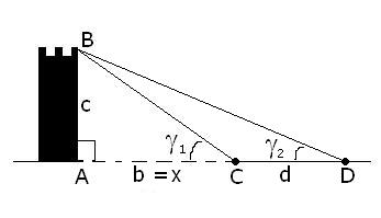 height tower